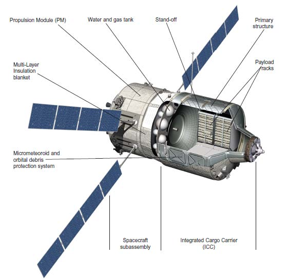 ATV-2 • The ATV is about the size of a traditional London double-decker bus. • Propulsion Module. It has four main engines and 20 smaller thrusters for attitude control. • Docking and refuelling system. The „nose“ contains the rendezvous sensors and Russian-made docking equipment. It also has eight thrusters to complement the propulsion system. • Integrated Cargo Carrier. Attaches directly to the space station and can store up to eight standard payload racks. • Four solar arrays. Provide electrical power to rechargeable batteries for eclipse periods. ATV can fully operate with the 4800 W generated by its solar wings, equivalent to the electricity used by a typical water heater at home. • Protection Panels. Protect against micrometeoroid and orbital debris. Cargo Payload – 4.4 tons of propellant (reboost and attitude control propellant) – 1,896 pounds of refuelling propellant for the station’s propulsion system – 220 pounds of air (oxygen and nitrogen) – 1.76 tons of dry supplies like bags, drawers and fresh food Total: 7 tons Measurements Largest diameter: 14.7 feet Length (probe retracted): 32.13 feet Total vehicle mass: 28,843 pounds Solar arrays span: 73.16 feet